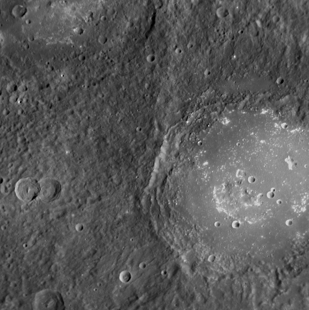 Date Acquired: October 6, 2008 Image Mission Elapsed Time (MET): 131771953 Instrument: Narrow Angle Camera (NAC) of the Mercury Dual Imaging System (MDIS) Resolution: 250 meters/pixel (0.16 miles/pixel) Scale: Lermontov’s diameter is 152 kilometers (94 miles) Spacecraft Altitude: 10,000 kilometers (6,200 miles) Of Interest: Lermontov crater was first observed by Mariner 10 and seen more recently by MESSENGER during its second flyby of Mercury. The crater floor is somewhat brighter than the exterior surface and is smooth with several irregularly shaped depressions. Such features, similar to those found on the floor of Praxiteles, may be evidence of past explosive volcanic activity on the crater floor. Lermontov appears reddish in enhanced-color views, suggesting that it has a different composition from the surrounding surface. Lermontov is named for Mikhail Yurevich Lermontov, a nineteenth-century Russian poet and painter who died from a gunshot suffered in a duel.